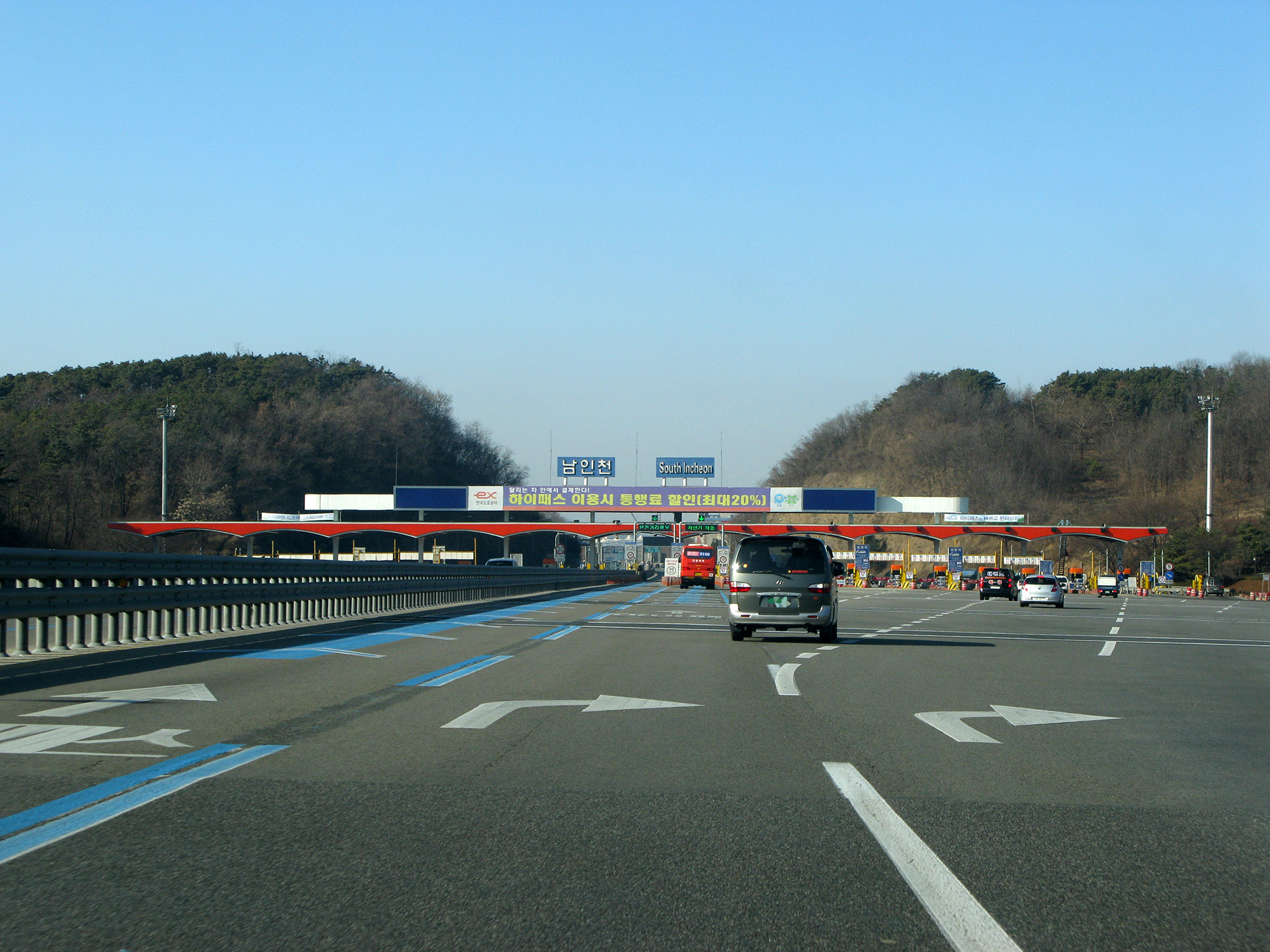 2nd Gyeongin Expressway South Incheon Tollgate